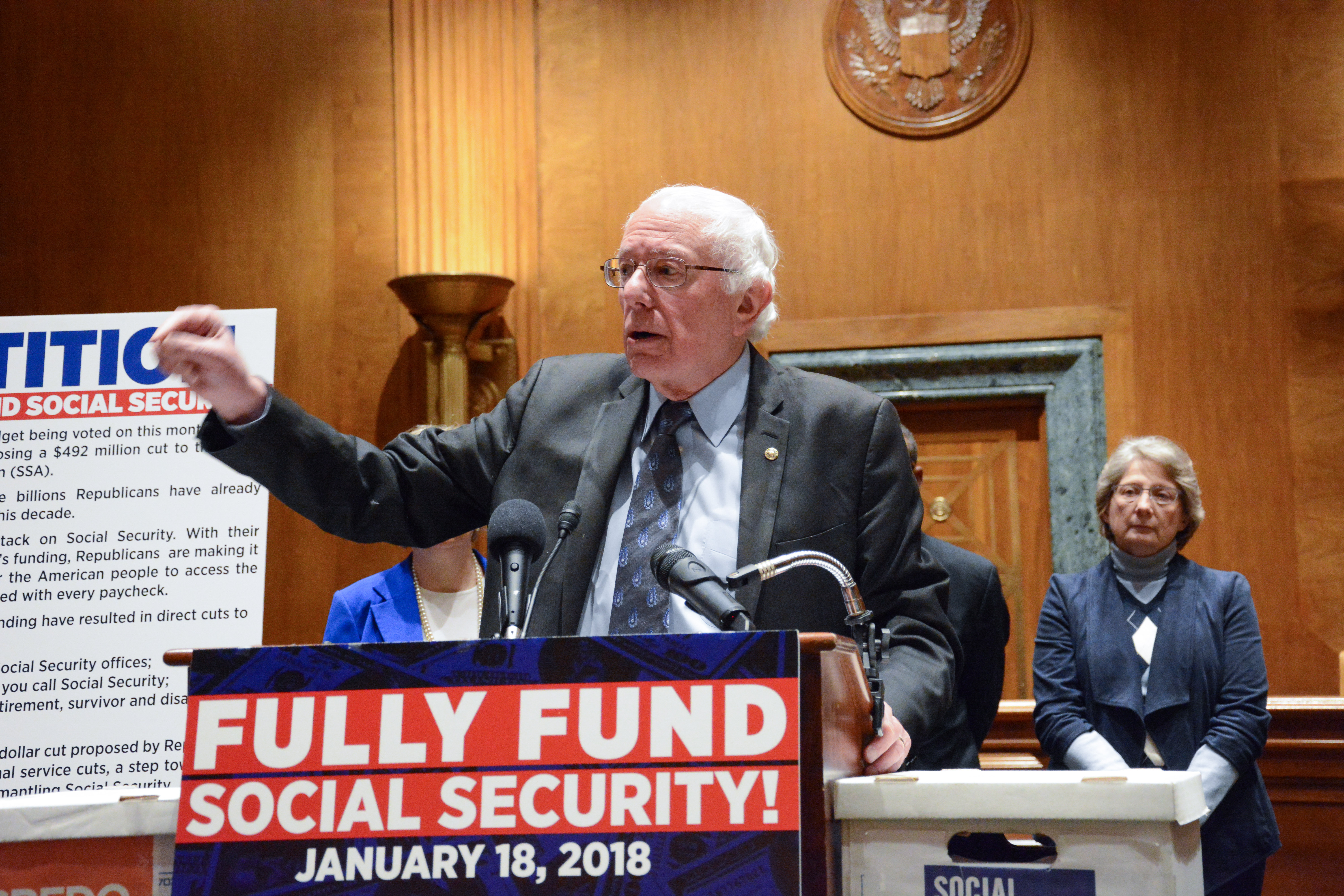 AFGE, Senators Sanders, Warren, and Casey, and coalition partners to deliver petition signed by taxpayers opposing $500 million in cuts to SSA.